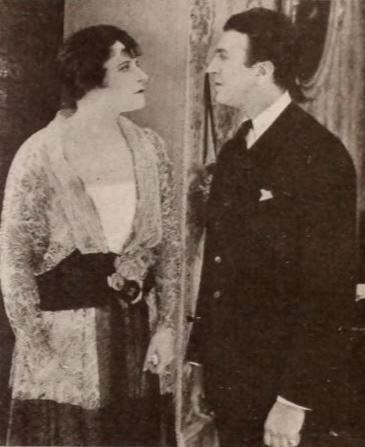 Still from the American drama film The Interloper (1918) with Kitty Gordon and Irving Cummings, on page 19 of the May 11, 1918 Exhibitors Herald.